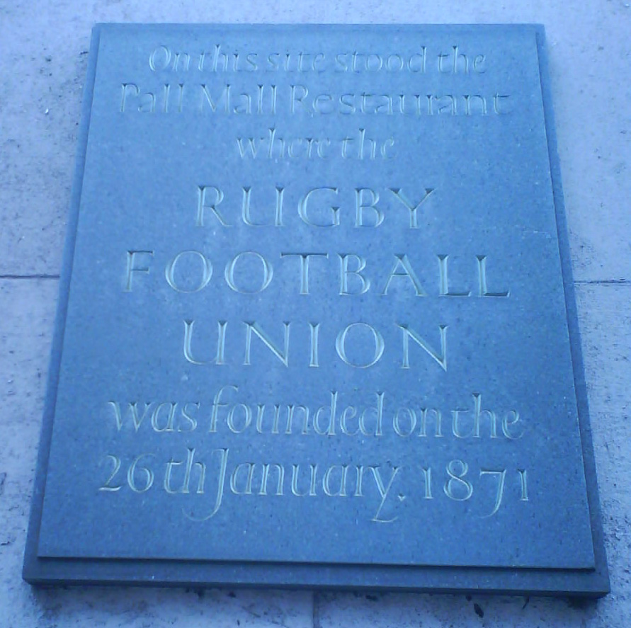 The plaque marking the spot wehere the Rugby Football Union were founded in 1871.